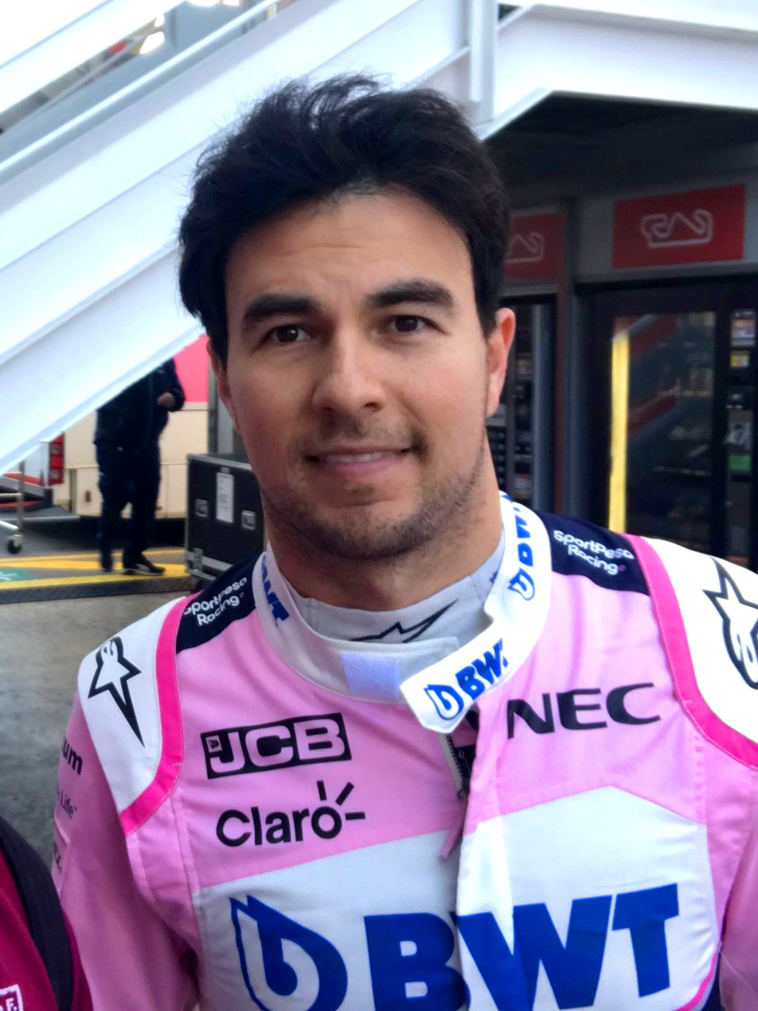 2019 Formula One tests Barcelona, Pérez.